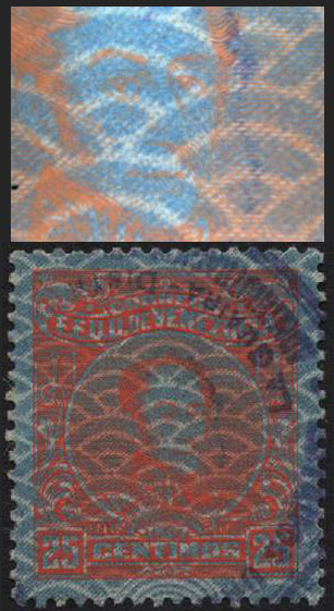 Venezuela 1932-38 25c Winchester Security paper magnified.